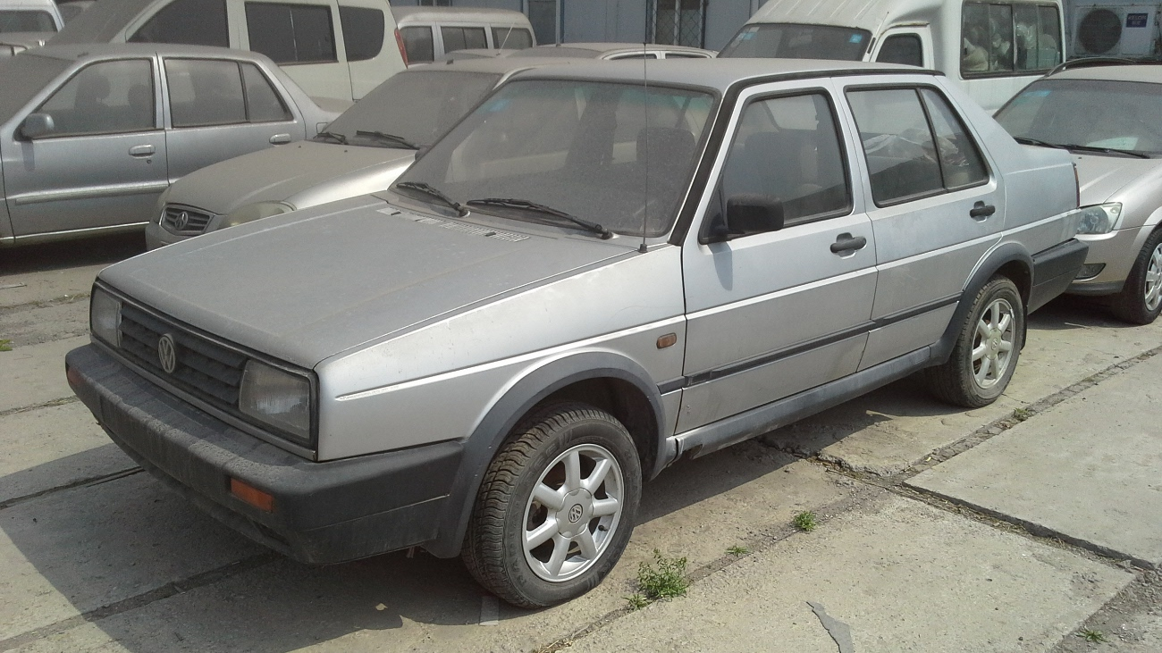 Volkswagen Jetta CN photographed in Tianjin, China.